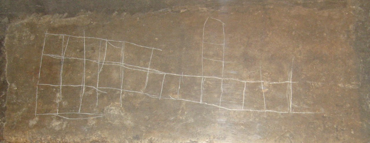 Photograph taken by me January 2008.A graffito, (ancient) of a race game, the Royal Game of Ur; the graffito is on a colossul statue from the 8th century BC.